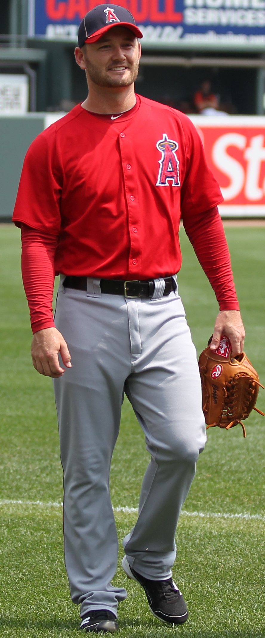 Los Angeles Angels pitcher Bobby Cassevah (right) and Tom Gregorio in 2011.